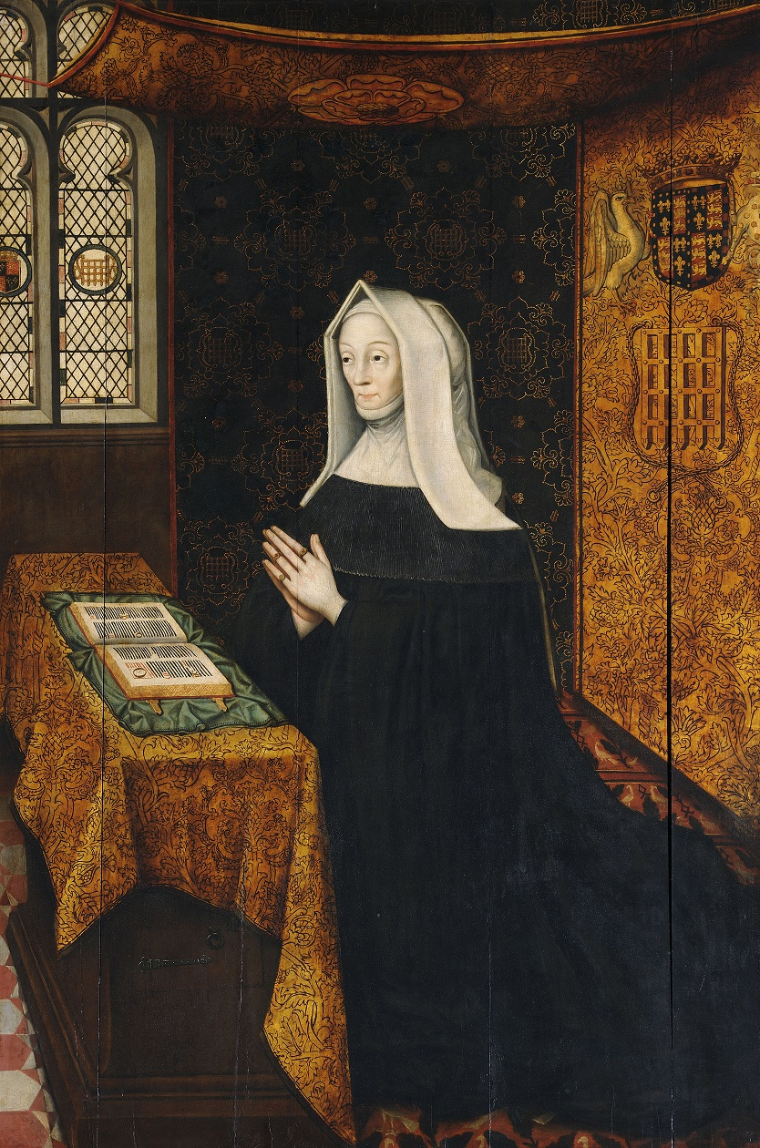 Portrait of Lady Margaret Beaufort from the Hall in St John's College, Cambridge